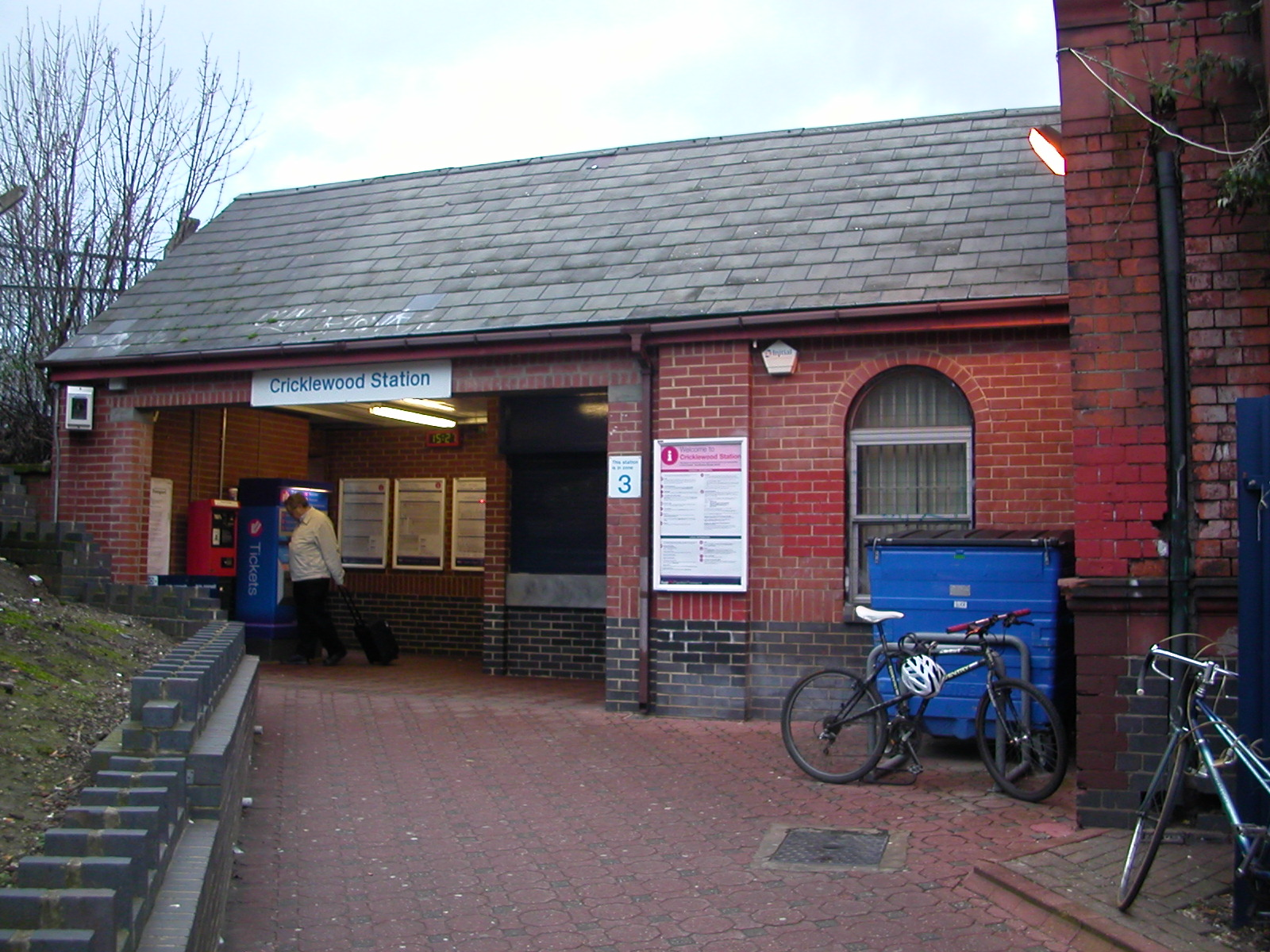 Exterior of main station building at Cricklewood. Photographed on 13th January 2007.